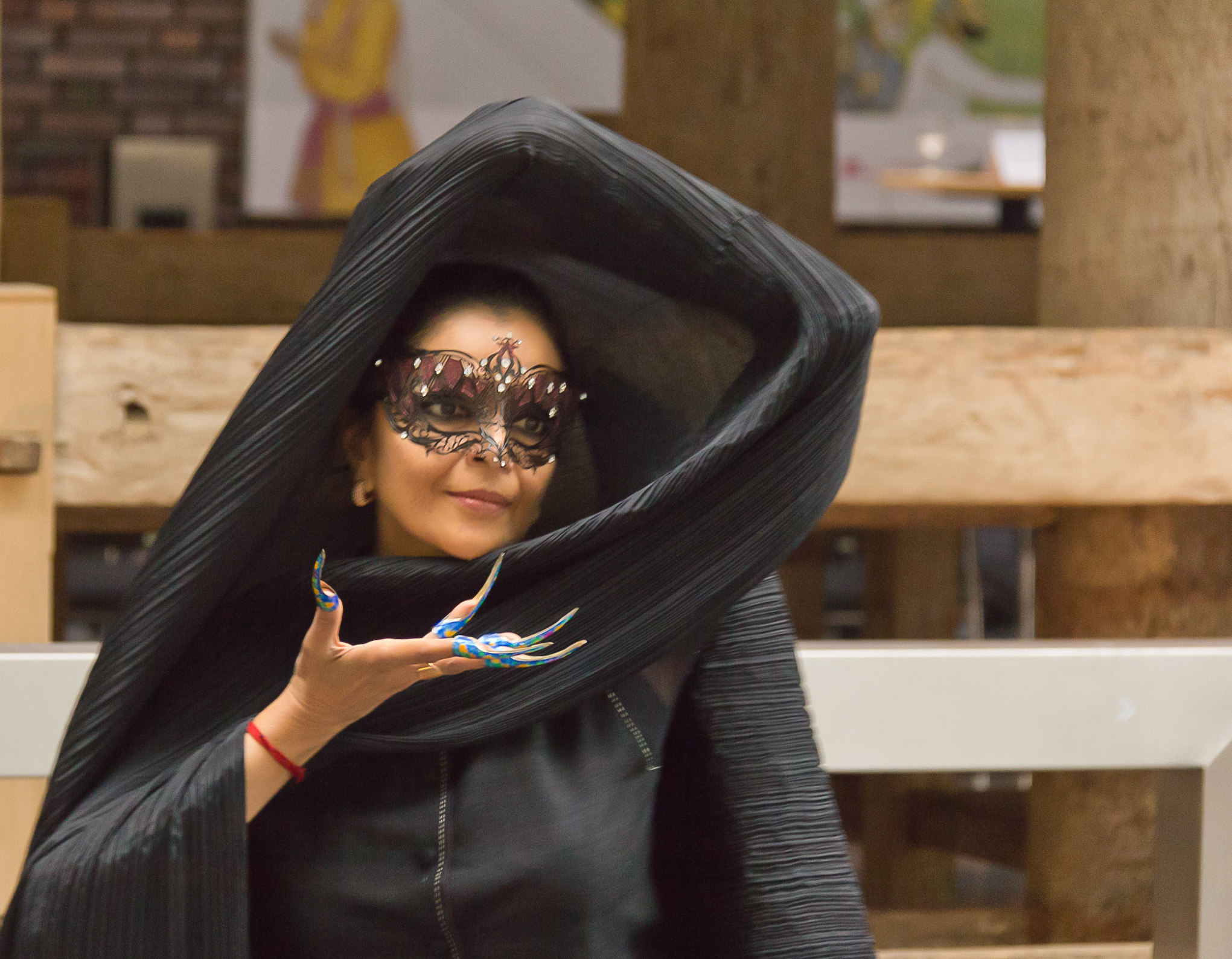 Press conference in the "Rautenstrauch-Joest-Museum" Cologne with die Indian artists Anita Ratnam and Maya Krishna Rao. Photo: Anita Ratnam showing a part of her performance